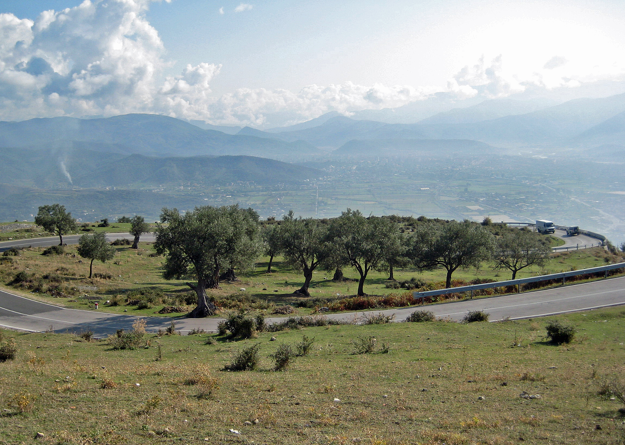 Road bends on the South side of Krraba pass in Albania